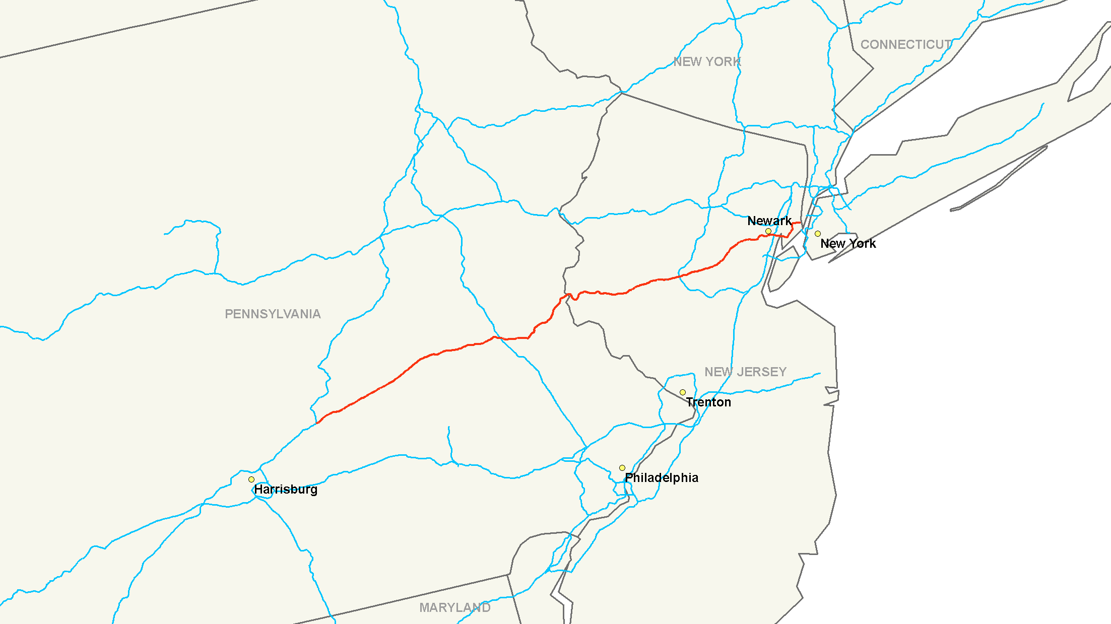 Map of Interstate 78